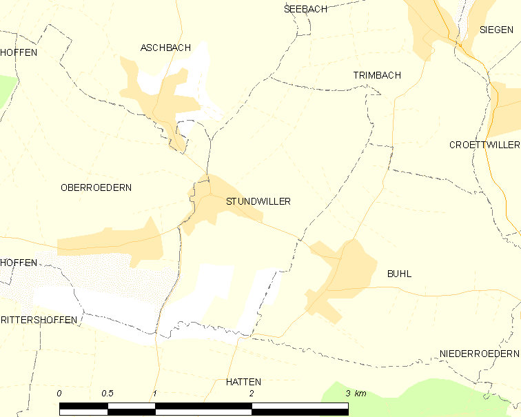 Map of French municipality